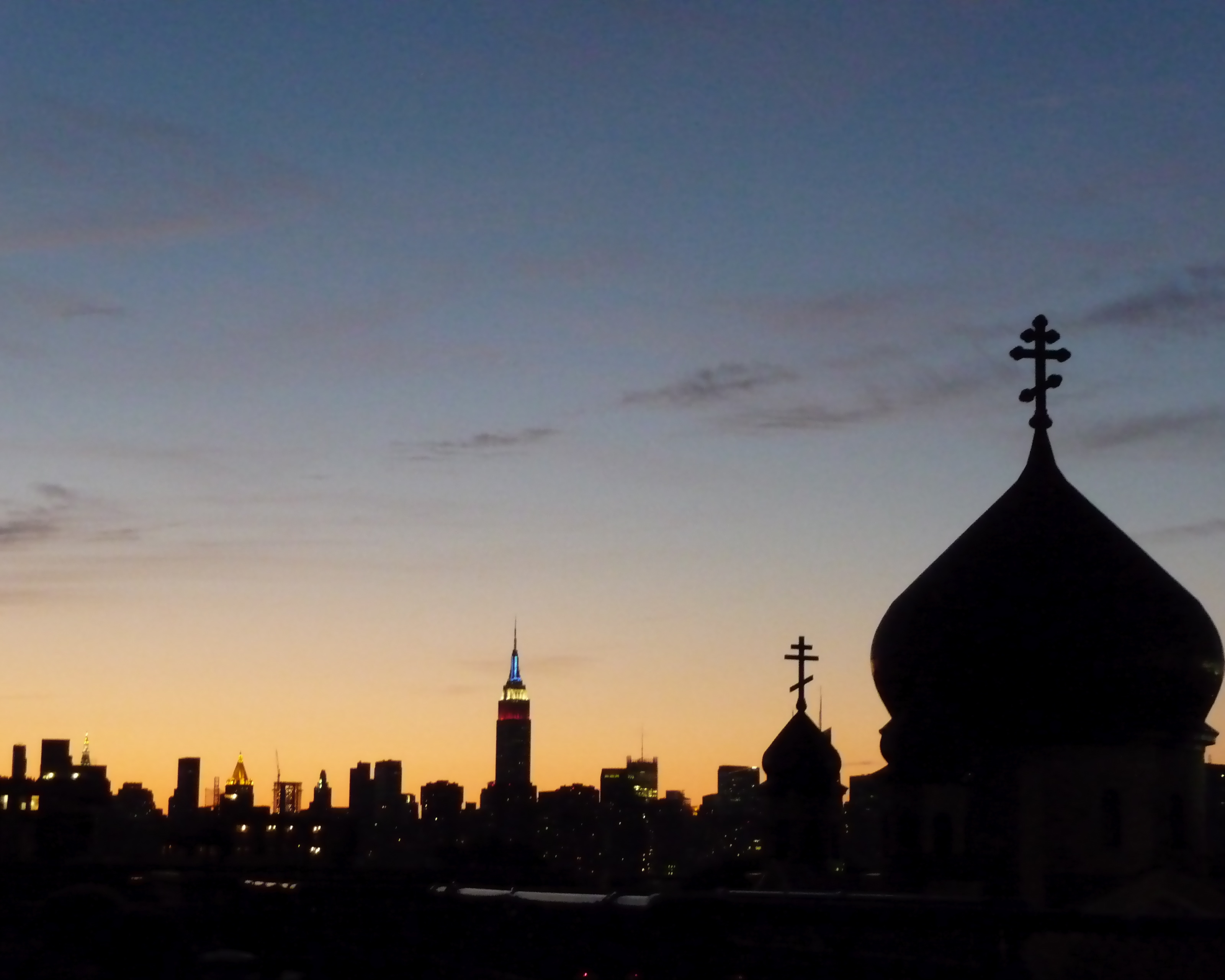 Russian Orthodox Cathedral of the Transfiguration of Our Lord and Manhattan skyline